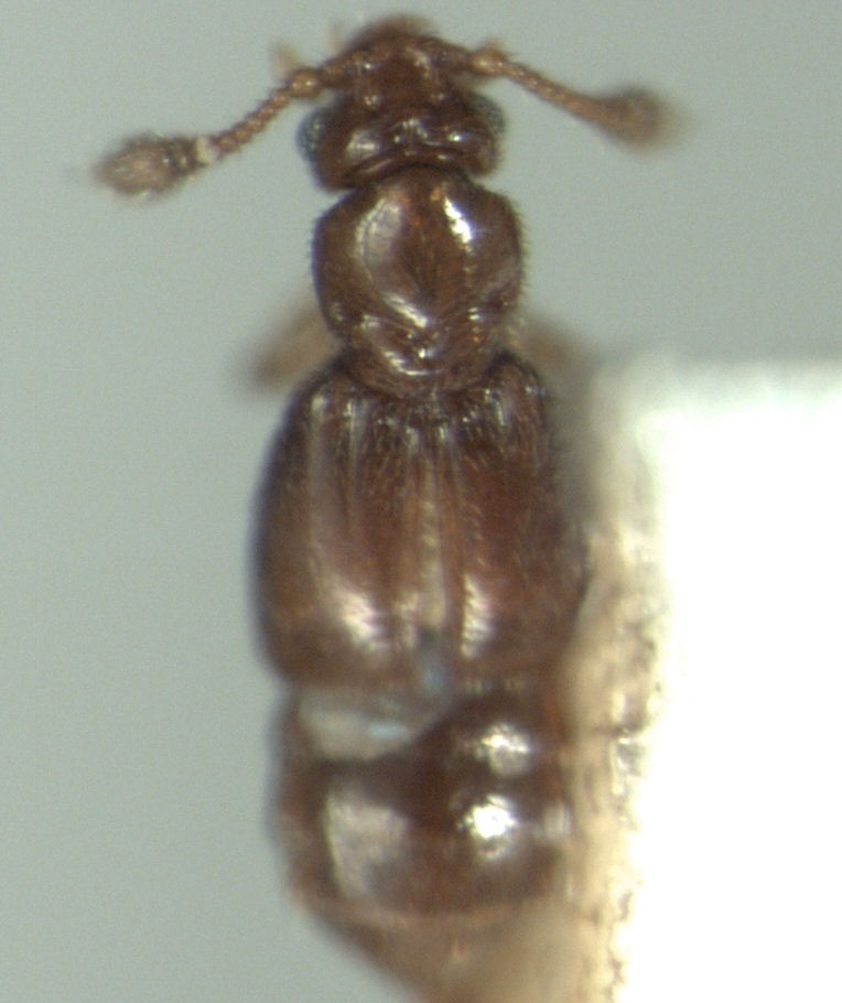 adult ?Philiopsis sp.